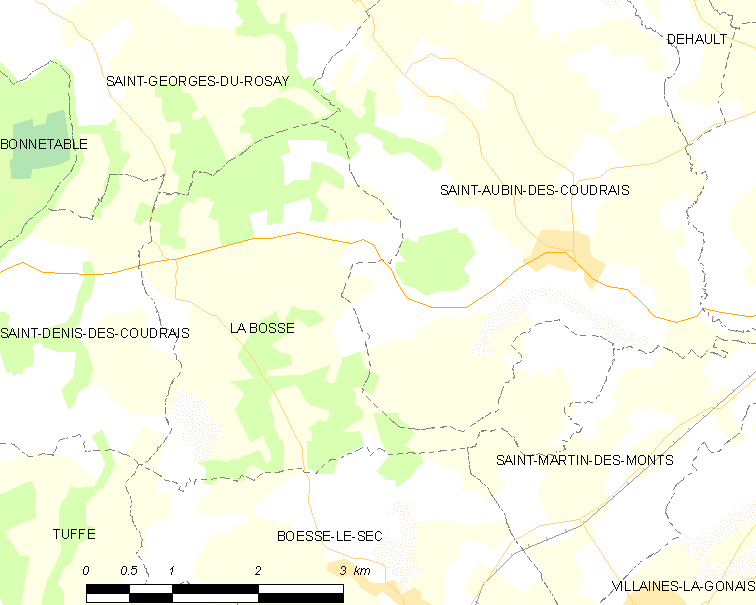 Map of French municipality